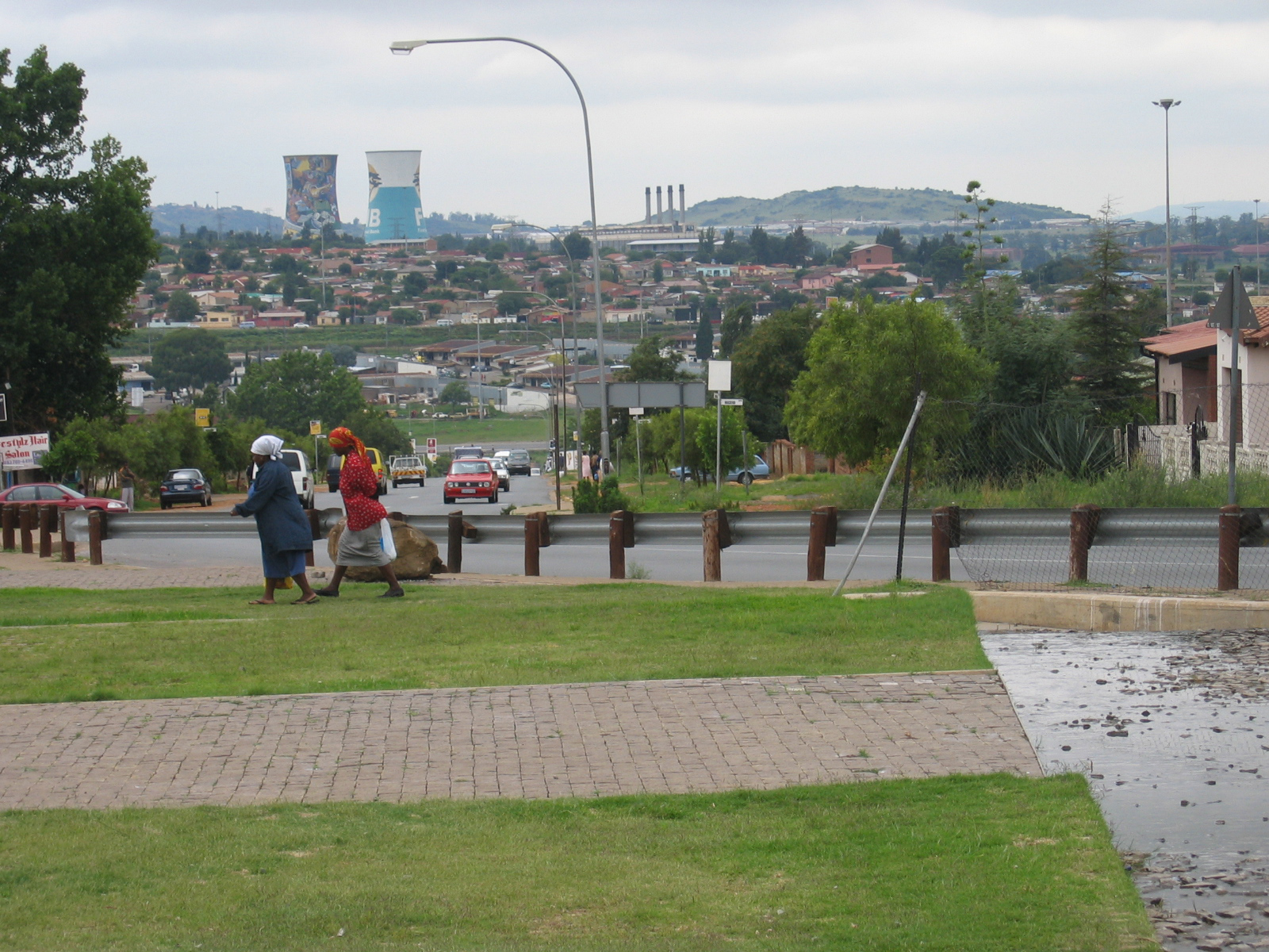 Soweto as seen from Orlando close to the Hector Pieterson Museum